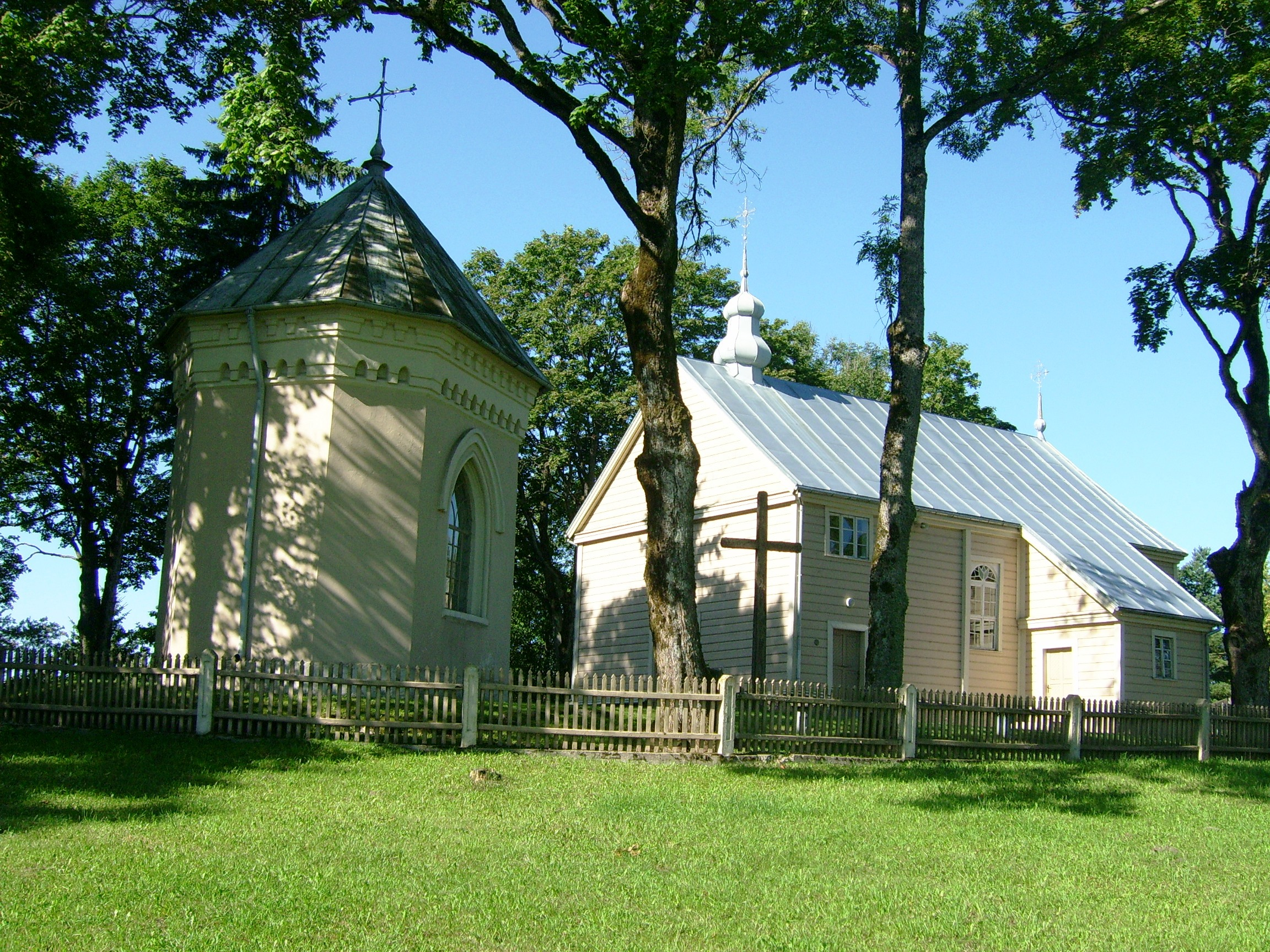 Varsėdžiai village church